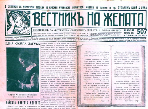 newspaper "Journal of Women" br.507 / 1932